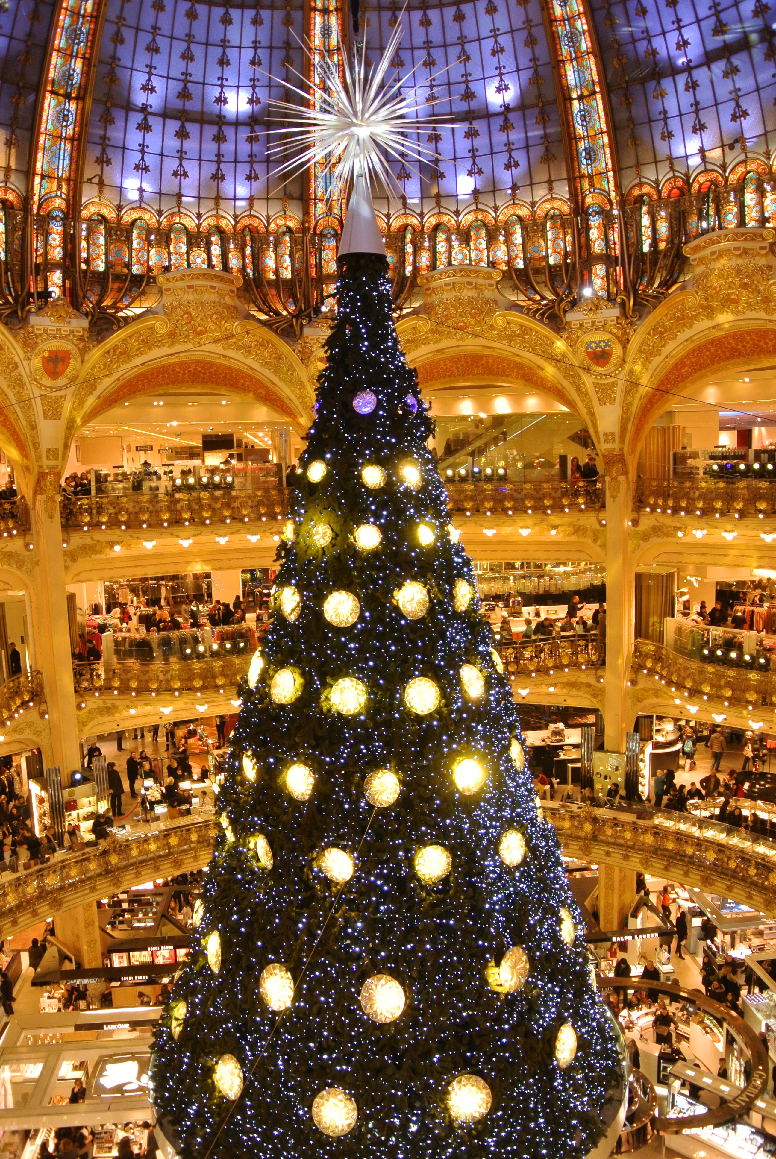 Christmas Tree at Galeries Lafayette Haussmann (2012)